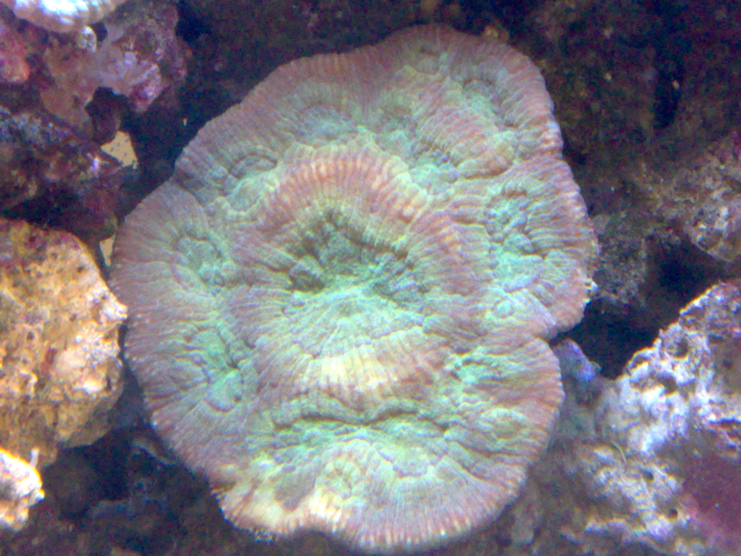 Green and brown Australomussa Rowleyensis in a reef aquarium